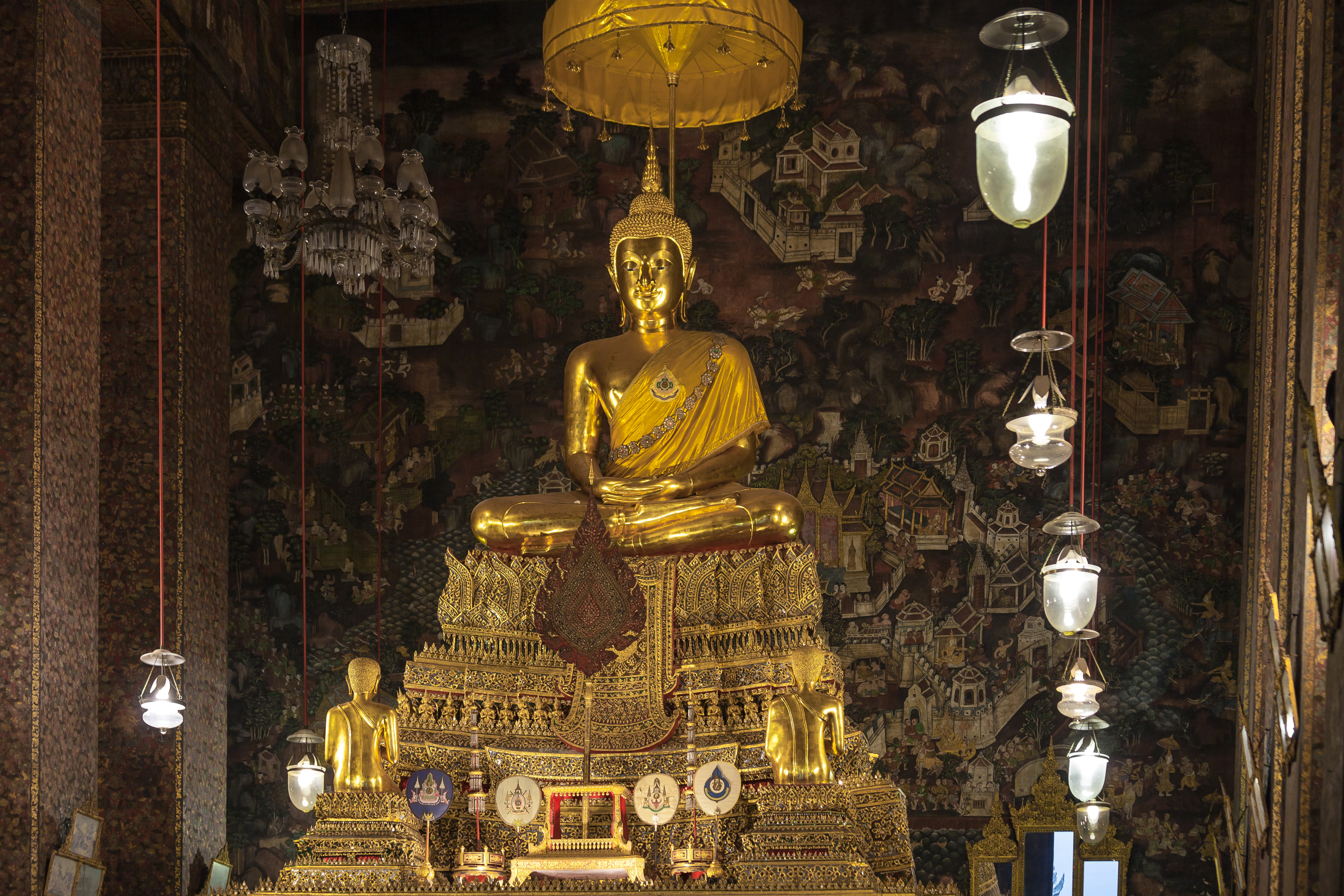 The Buddha image, known as Phra Buddha Theva Patimakorn and thought to be from the Ayutthaya period, was moved here by Rama I from Wat Sala Si Na (now called Wat Khuhasawan) in Thonburi.